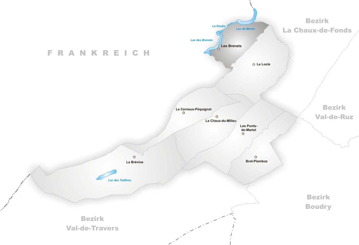 Municipality Les Brenets